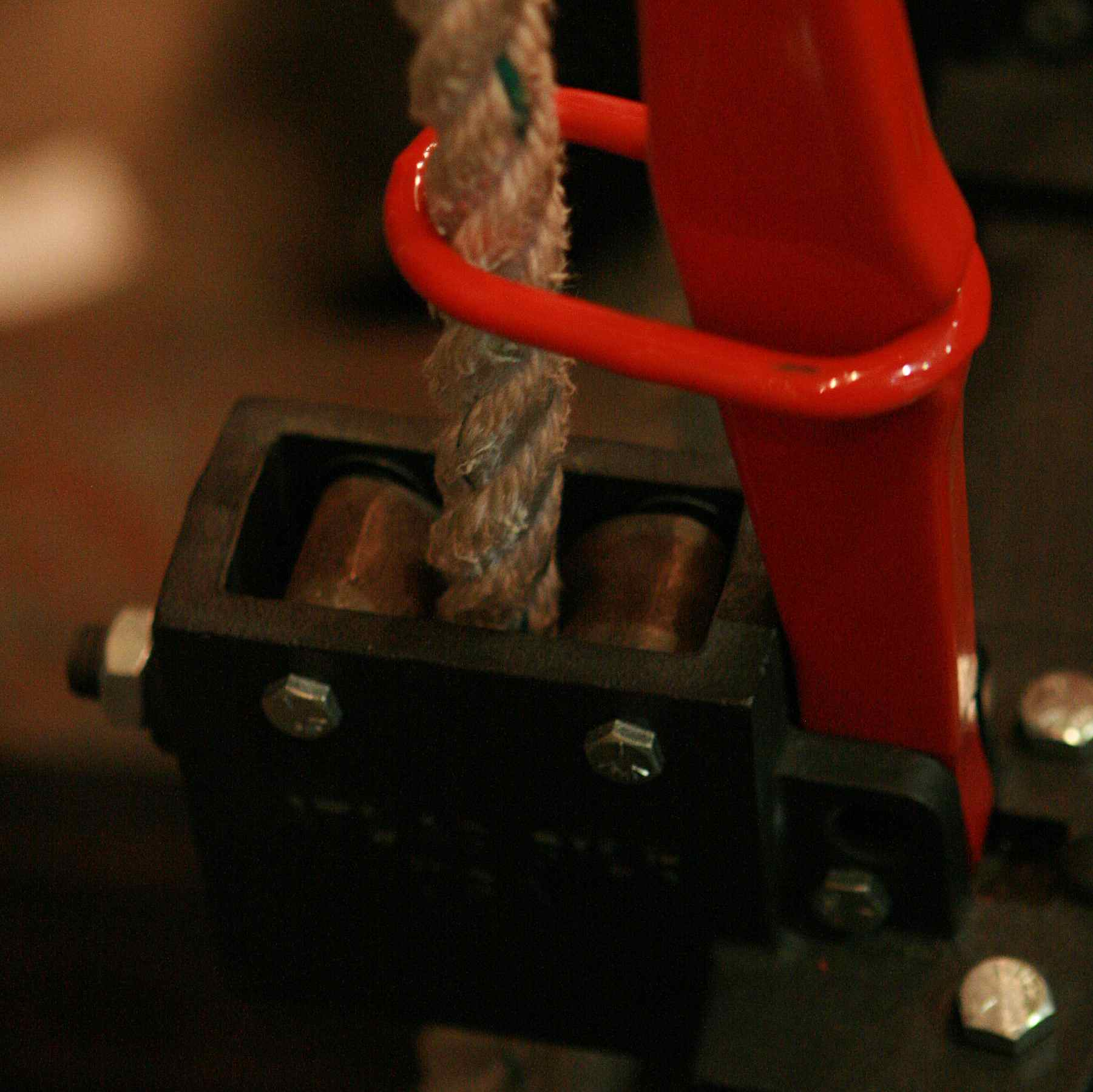 Closeup of the iron cams on a rope lock, which work together to grip a fly system purchase line to prevent it, and the lineset it is controlling, from moving.